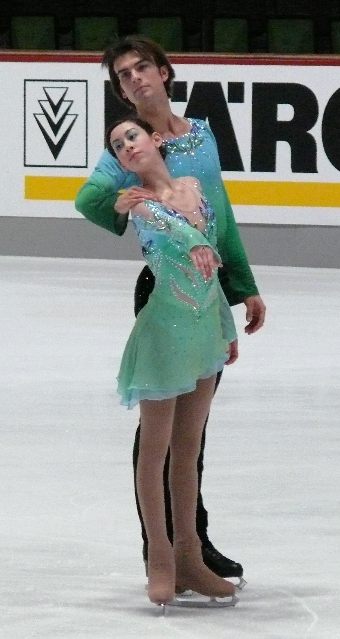 Rachel Kirkland and Eric Radford (CAN) at their free program at the Nebelhorntrophy in Oberstdorf, Germany